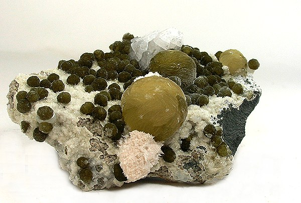 Gyrolite Locality: Mumbai District (Bombay District), Maharashtra, India (Locality at ) This classic combo piece is comprised of light to olive green spherules of translucent gyrolite to about an inch across, gemmy white apophyllite to 2 cm, pure white okenite masses on mm size stilbite, which in turn, sits on basalt. A really neat piece from the Deccan Traps! The gyrolite is of the highest quality and is unique in color. This is older material, from the quarries nearer to Bombay such as perhaps Pandulena, if the label is to be believed, and not from more recent mining at Jalgaon in Maharashtra State 10 x 7 x 2.8 cm